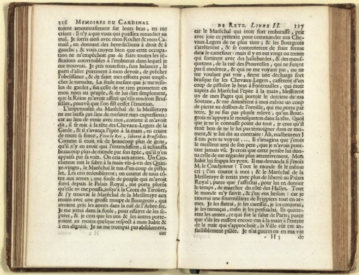 Jean Francois Paul de Gondi, Kardinal von Retz, Memories, Edition of Amsterdam, 1731